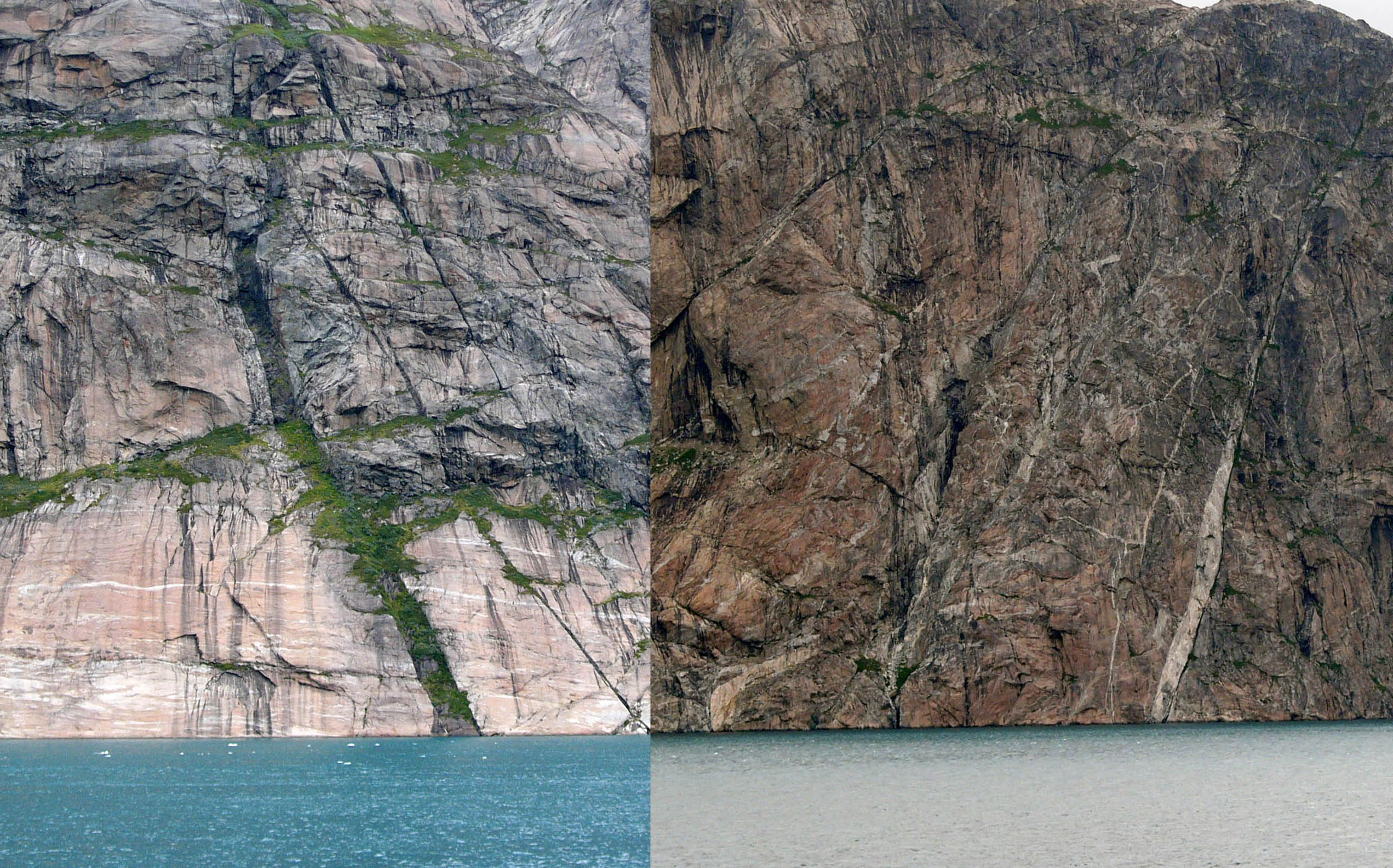 Dykes in Prinz Christian Sund, south Greenland